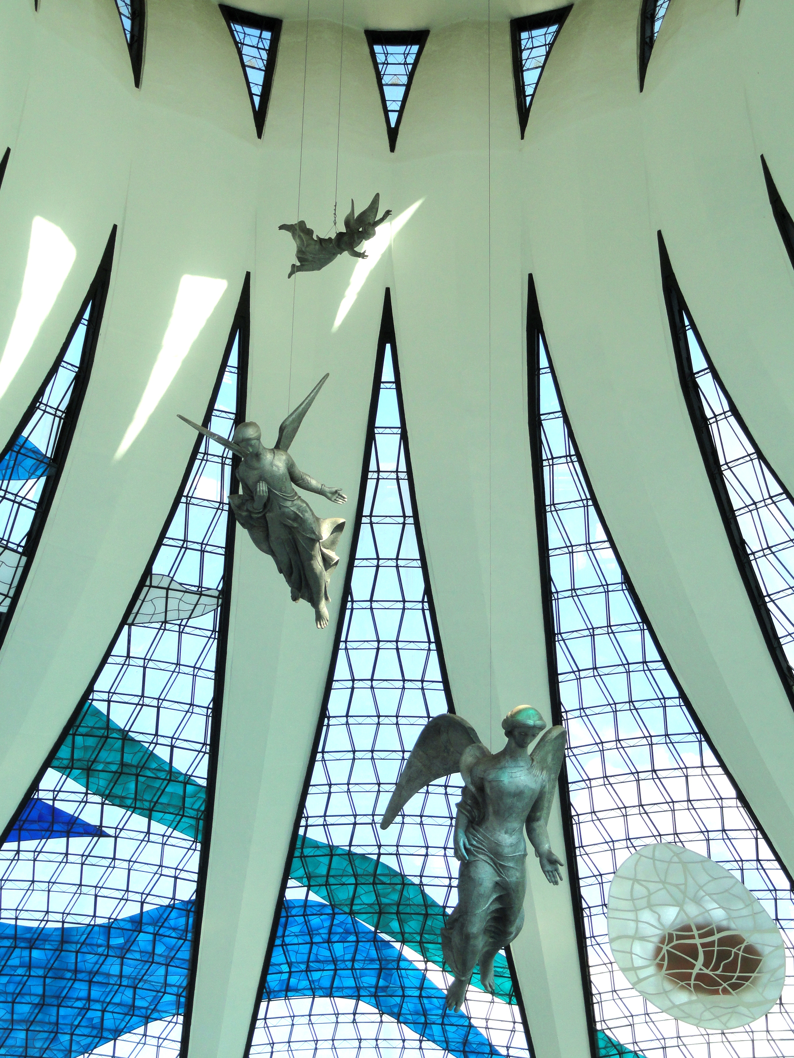 Interior of the Catedral de Brasília, Brasília, Brazil.